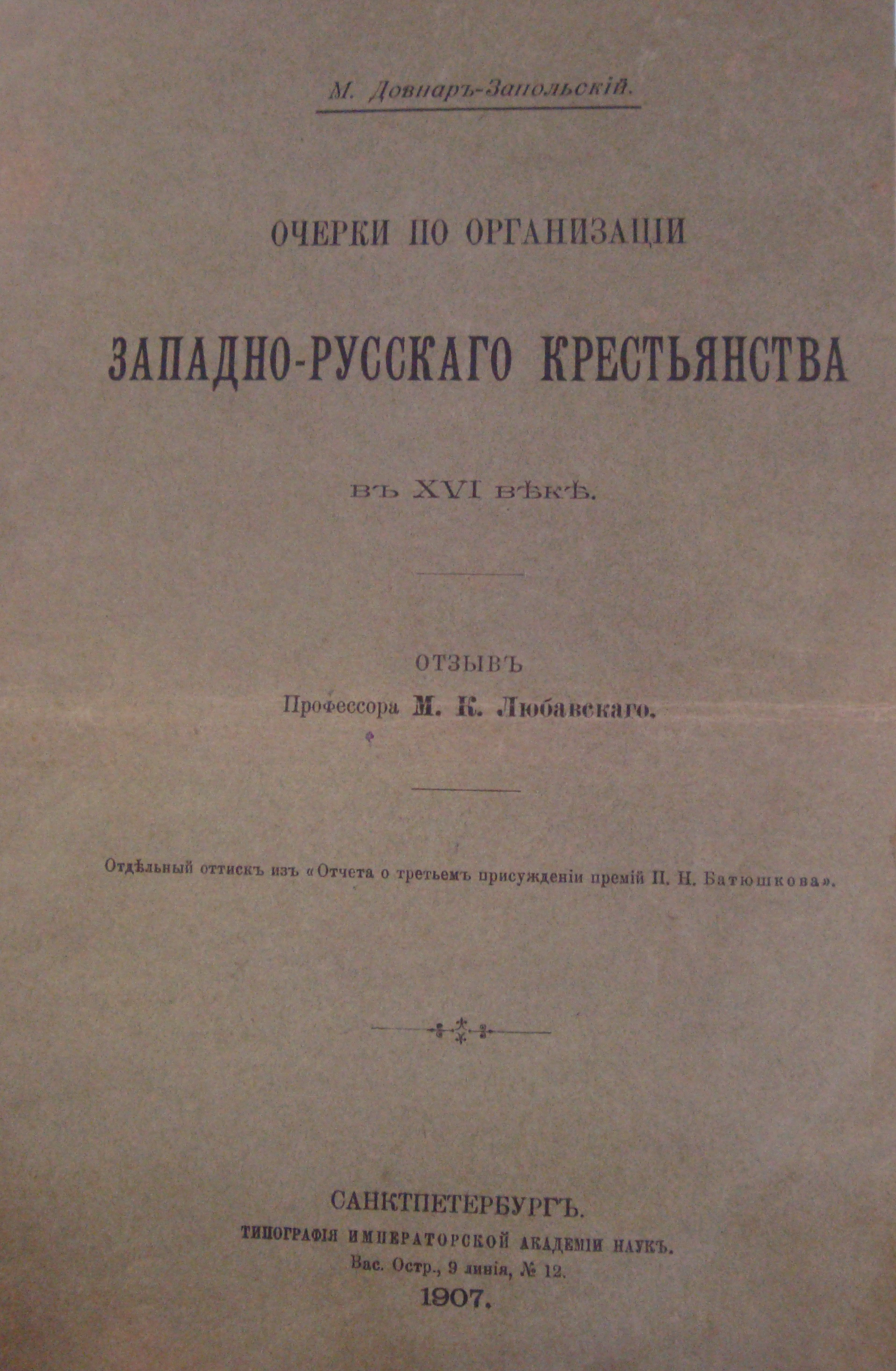 title page of book: Митрофан Довнар-Запольский "Очерки по организации западно-русского крестьянства в XVI веке", 1907 AD